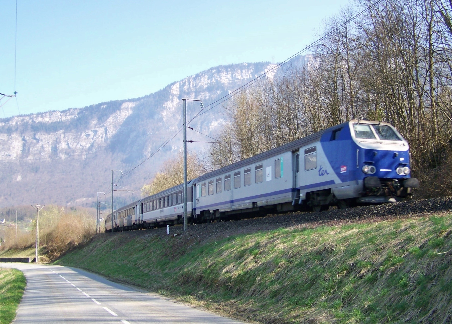 Sight of the RD 921d road and the railway line from Lyon with a French regional train bound for Chambéry (ahead), on Lépin-le-Lac territory, in Savoie.